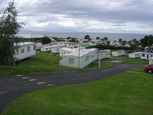 Caravans at Craig Tara holiday park, nr. Ayr. Most of the old chalets on this former Butlins site have now gone, replaced by caravans forming the current "Haven" site. Some buildings have been retained - that visible in the left middle distance is the old dining hall still in use as a restaurant facility.